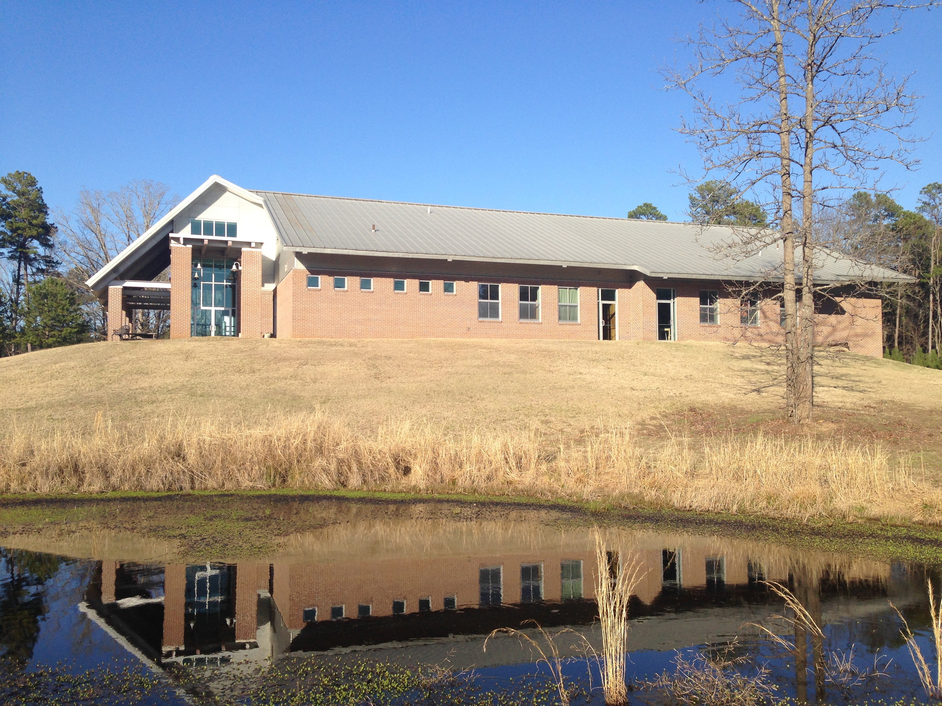 A building and a pond at the University of Mississippi Field Station.